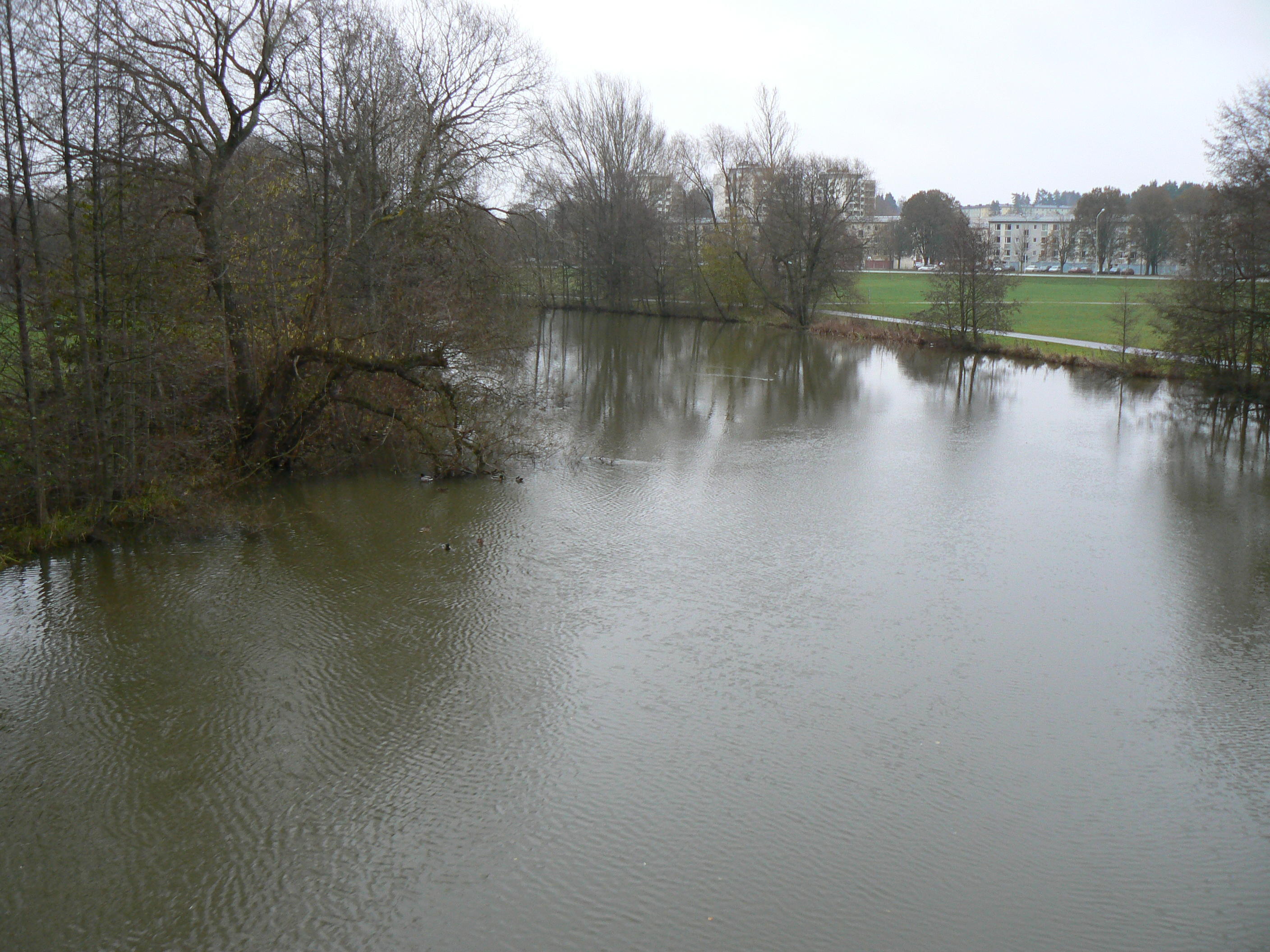 River Stångån with Johannelund in the background. Taken from Råberga bridge on the border between Hejdegården and Tannefors in Linköping, Sweden.